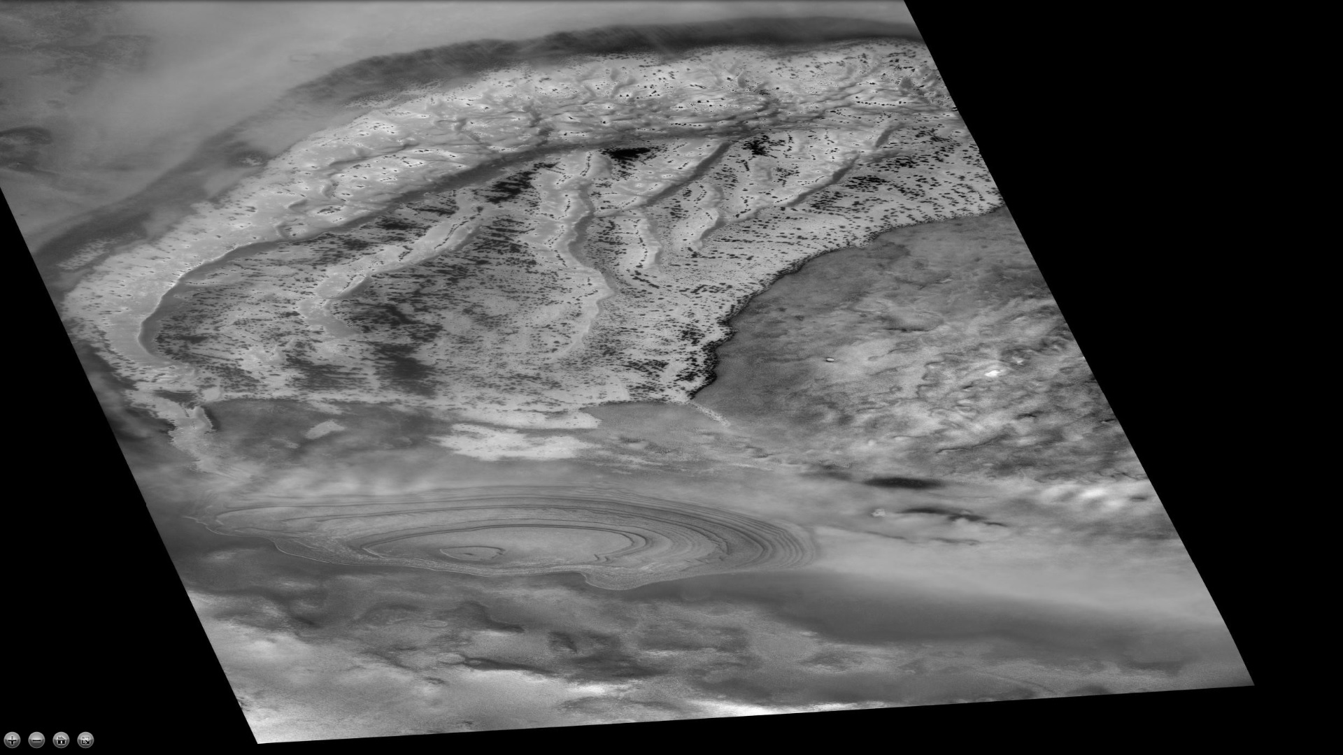 Jeans crater, as seen by ctx